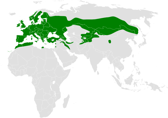 Cyanistes distribution map, based on